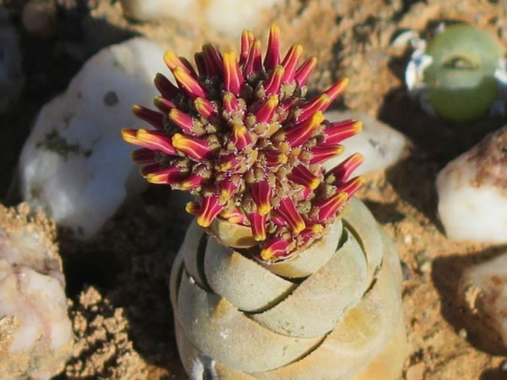 Crassula columnaris L.f. - Knersvlakte, Western Cape Province, South Africa